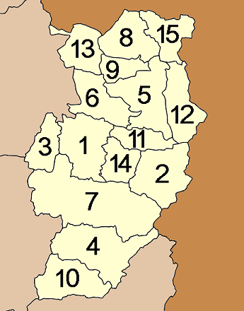 Map of the province Nan with the districts (Amphoe, อำเภอ) numbered. Mueang Nan (อำเภอเมืองน่าน) Mae Charim (อำเภอแม่จริม) Ban Luang (อำเภอบ้านหลวง) Na Noi (อำเภอนาน้อย) Pua (อำเภอปัว) Tha Wang Pha (อำเภอท่าวังผา) Wiang Sa (อำเภอเวียงสา) Thung Chang (อำเภอทุ่งช้าง) Chiang Klang (อำเภอเชียงกลาง) Na Muen (อำเภอนาหมื่น) Santi Suk (อำเภอสันติสุข) Bo Kluea (อำเภอบ่อเกลือ) Song Khwae (อำเภอสองแคว) Phu Phiang (King Amphoe) (กิ่งอำเภอภูเพียง) Chaloem Phra Kiat (อำเภอเฉลิมพระเกียรติ)